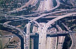 Los Angeles, California. This picture was taken on descent into LAX. This is a view looking South at the 105/110 Freeway interchange.